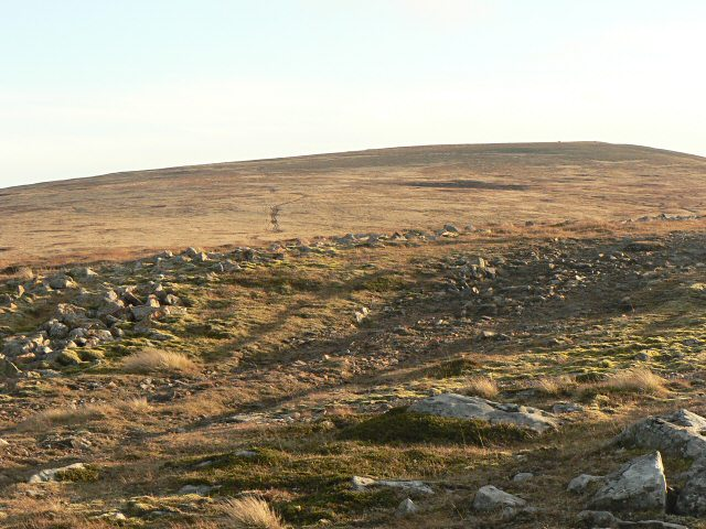 View to Cairn of Claise This is the high moorland between Carn an Tuirc, Coire Loch Kander and Cairn of Claise. The ground looks orange in the November afternoon sun.